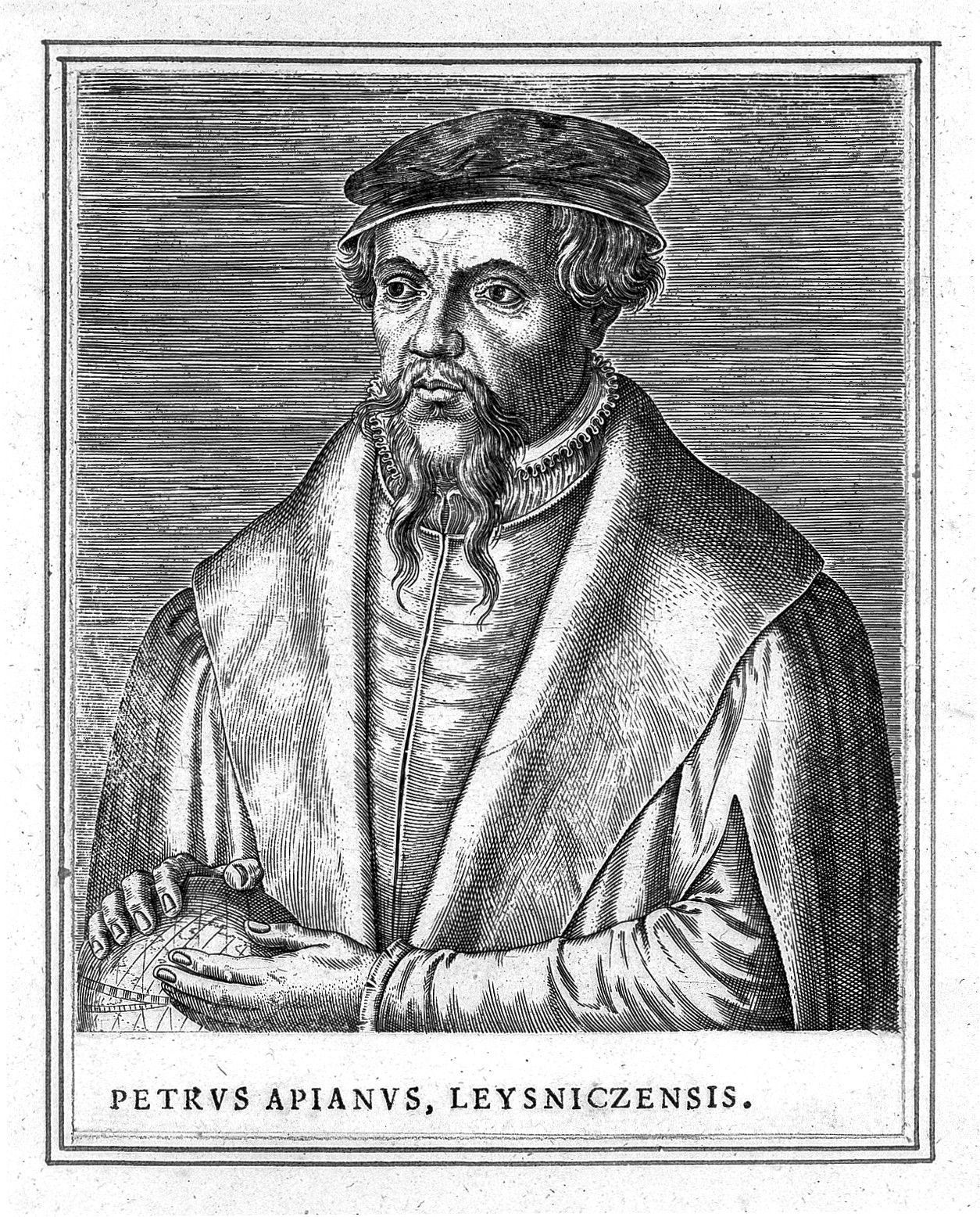 Portrait of Petrus Apianus. Plate to P. Galle's, 'Vivorum Doctorum Effigies'. Iconographic Collections Keywords: Petrus Apianus